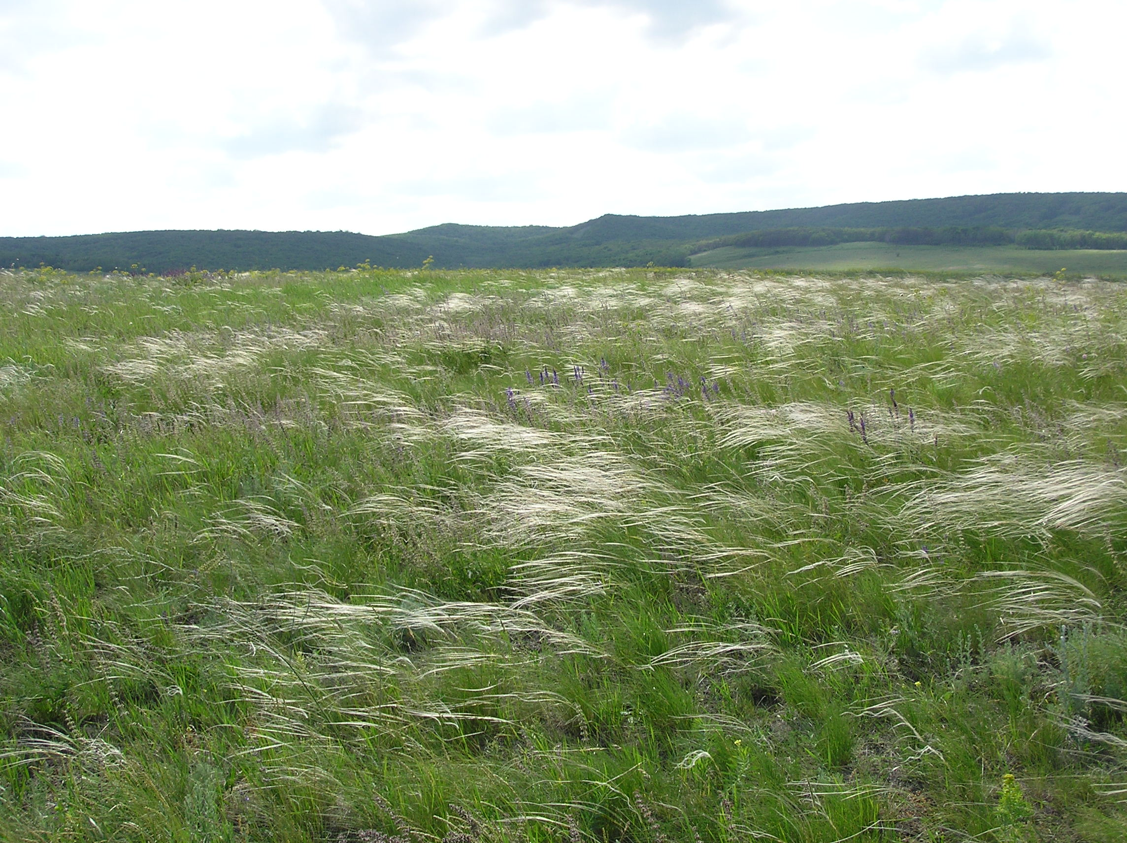 Stipa lessingiana Trin. & Rupr. Habitat: steppe. Vicinity of Saratov city, Russia.